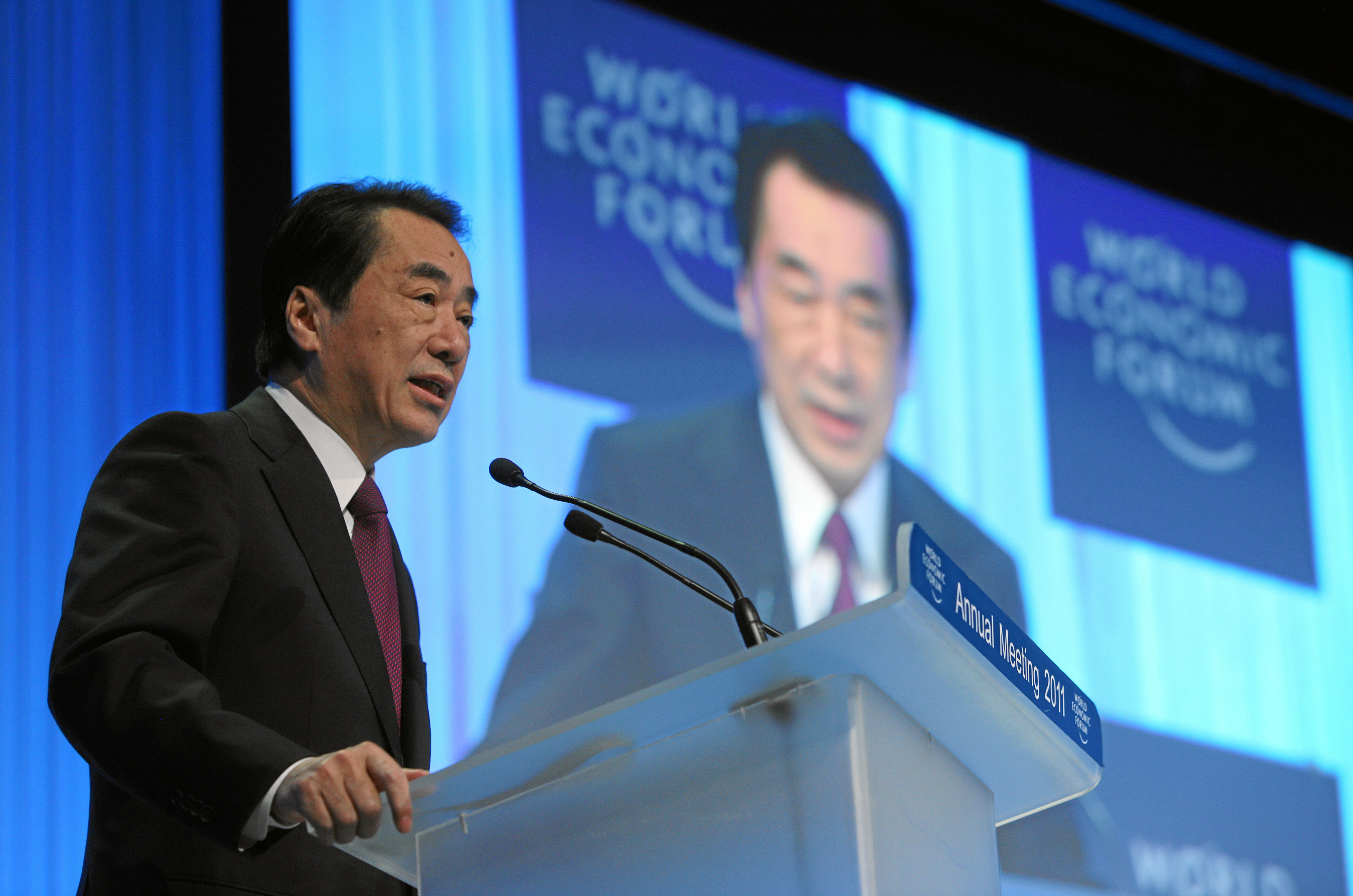 Naoto Kan, Prime Minister, talked about "Vision for Japan" at the World Economic Forum Annual Meeting in Davos Municipality, Graubünden Canton on January 29, 2011.